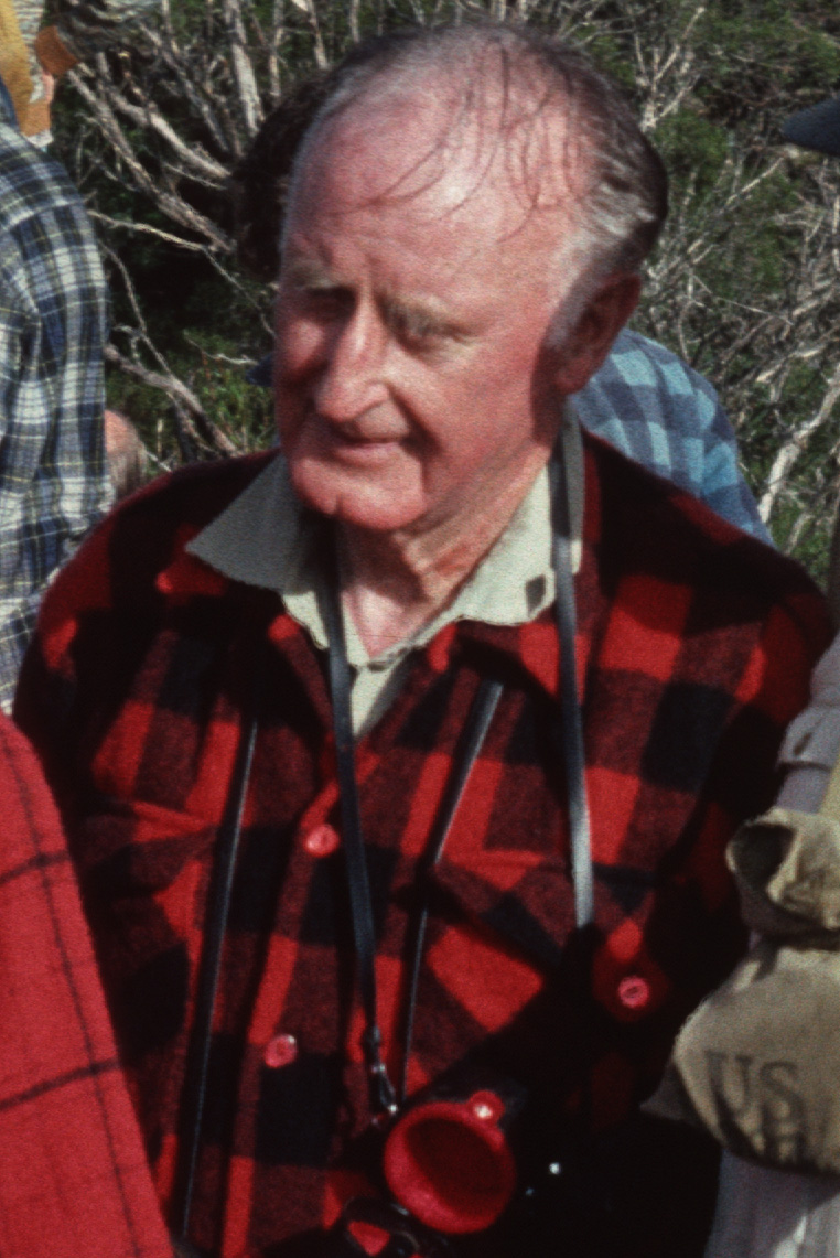 Jack Breheny on the summit of Mt Duncan, Tasmania, taken on the 20th anniversary walk of the North West Walking Club.